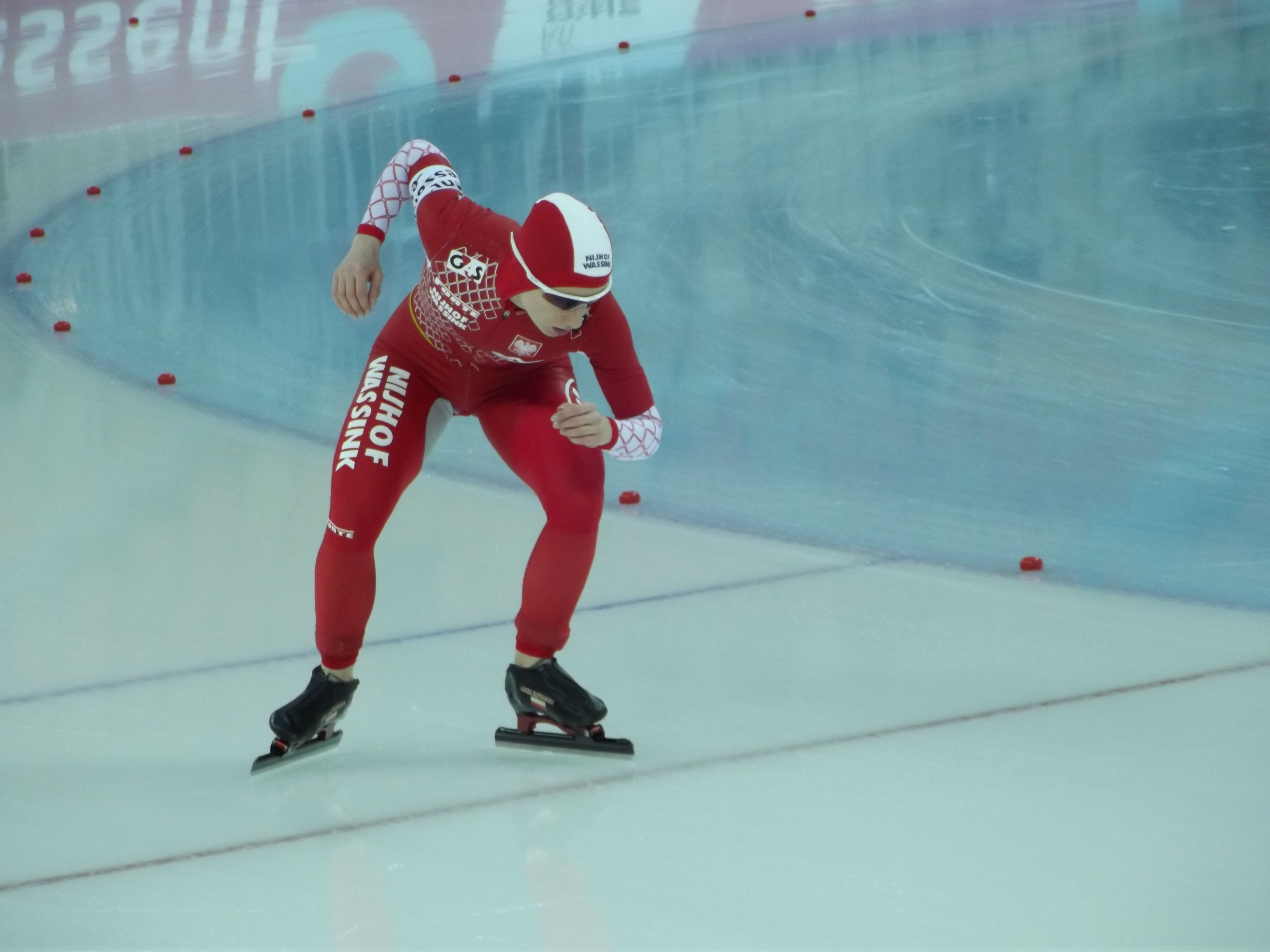 2013 World Single Distance Speed Skating Championships